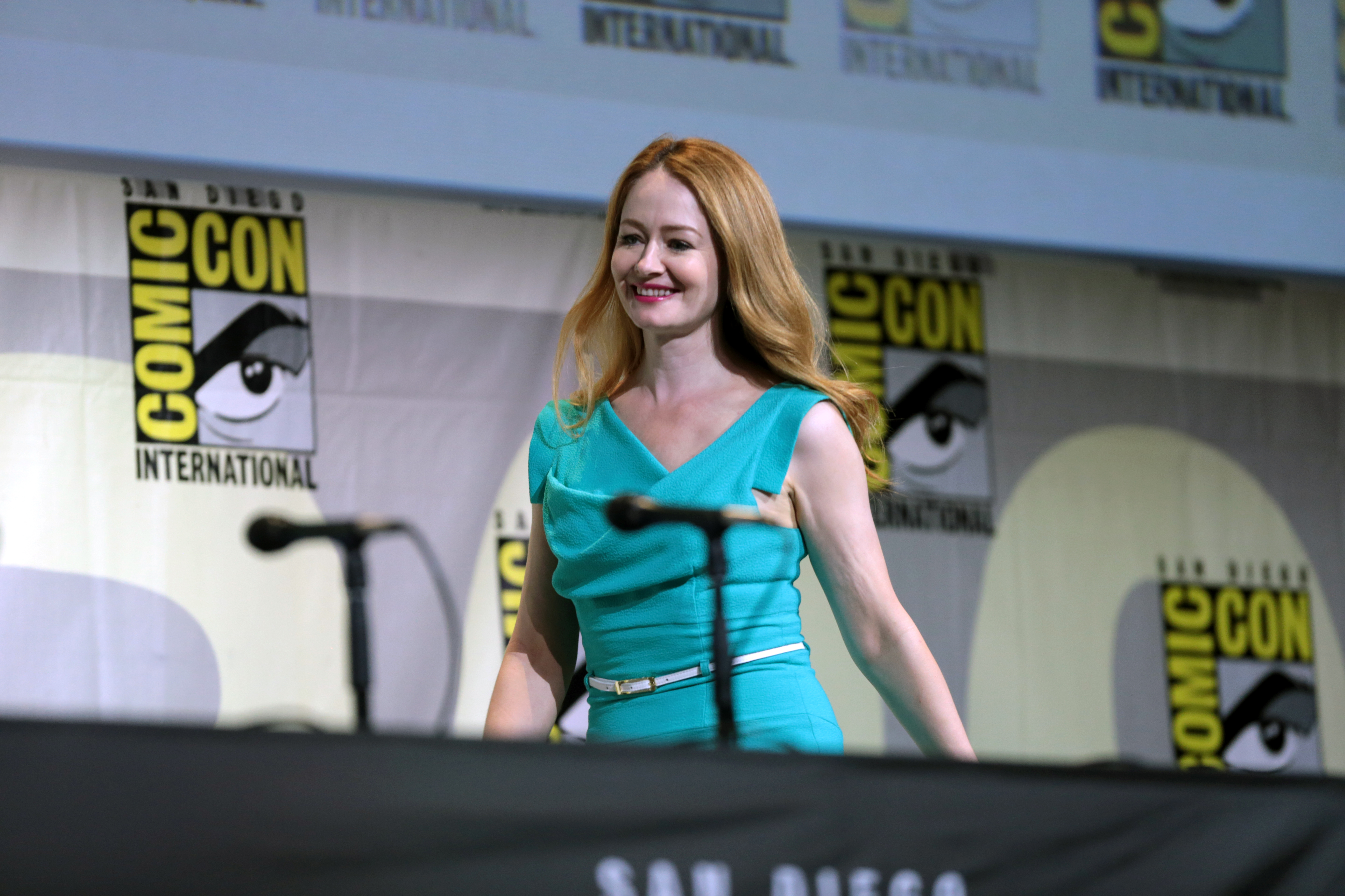 Miranda Otto speaking at the 2016 San Diego Comic Con International, for "24: Legacy", at the San Diego Convention Center in San Diego, California.